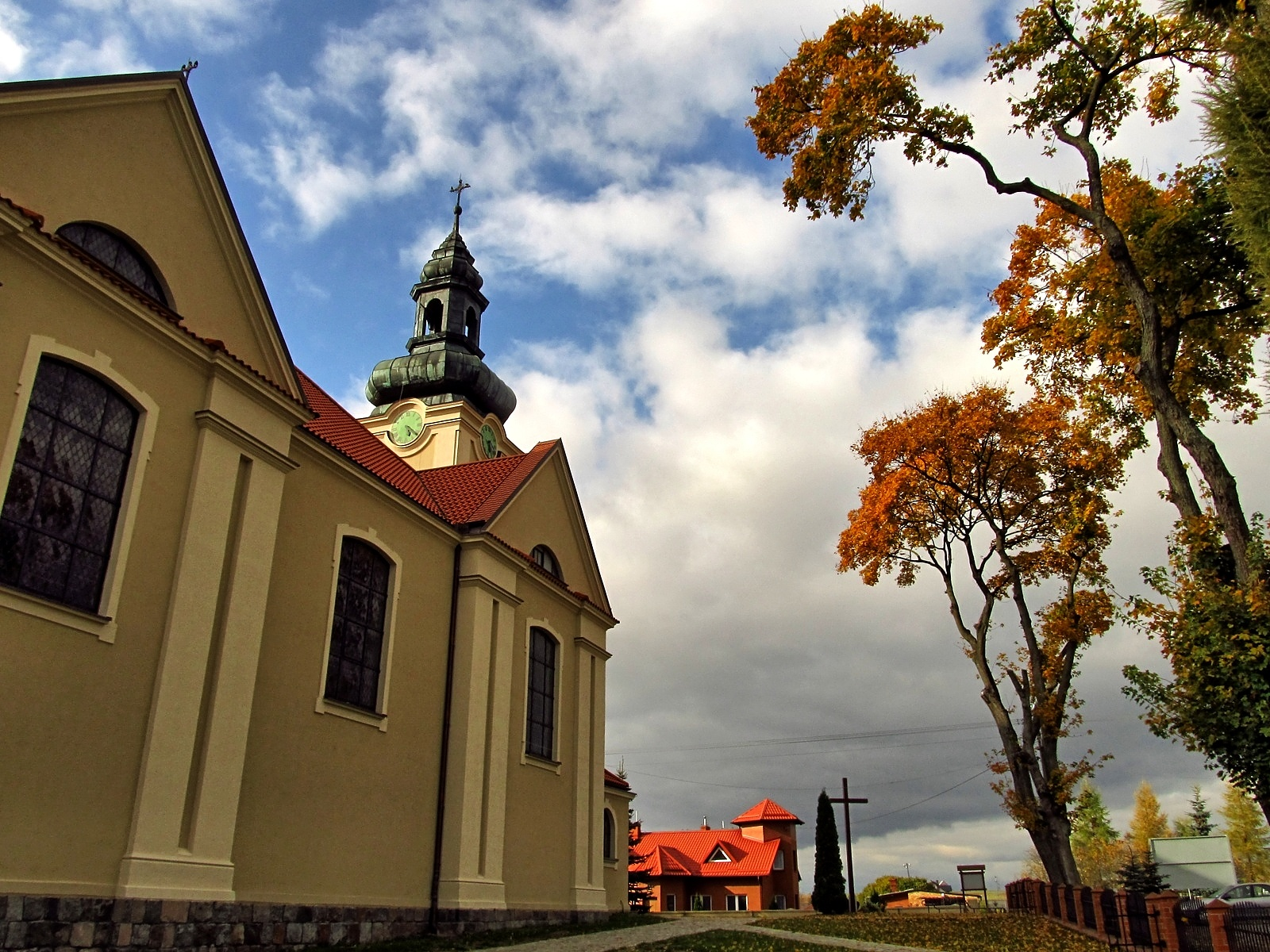 Northern wall of the church